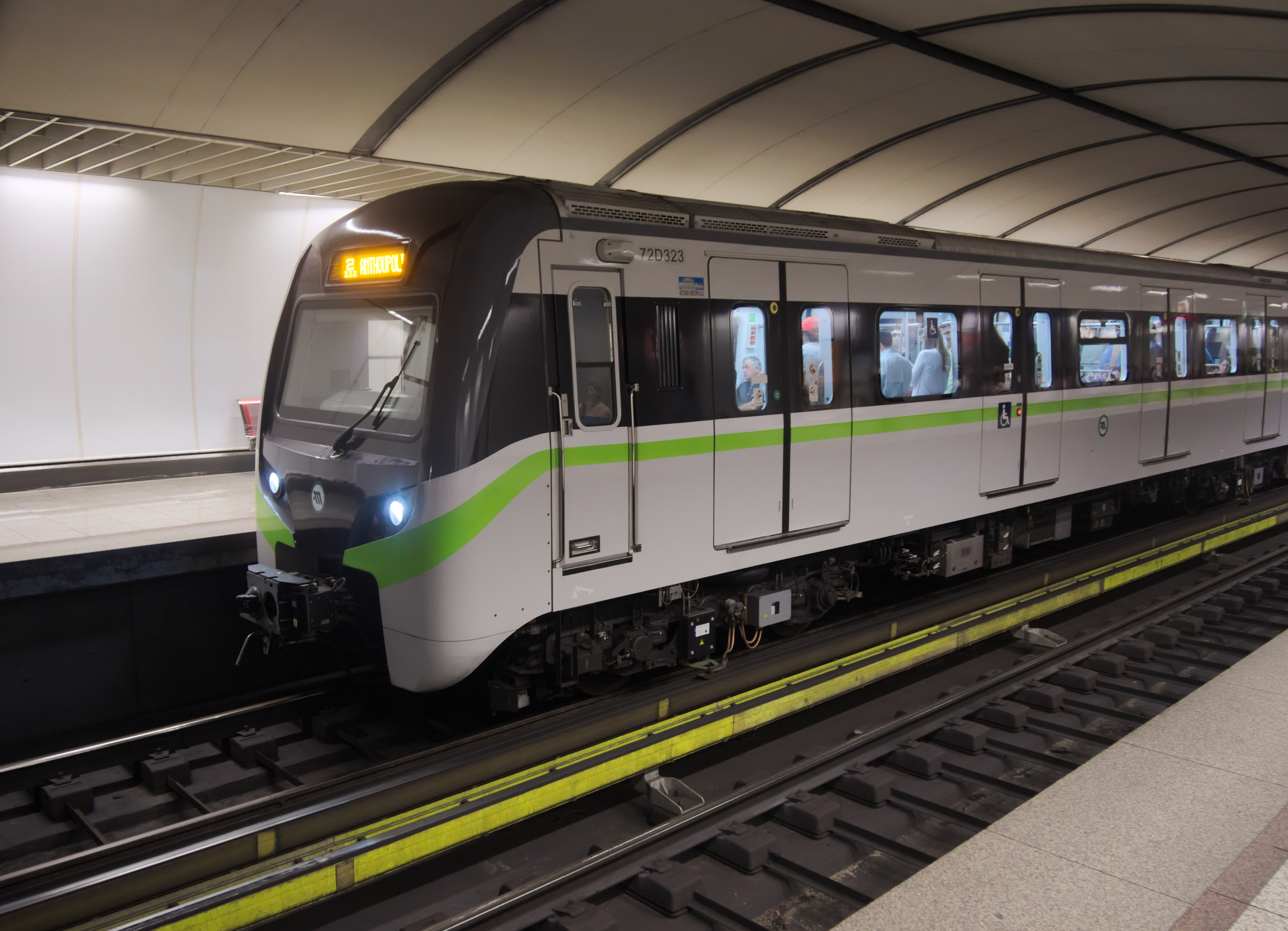 Athens Metro batch 3 train, at Omonia metro station.